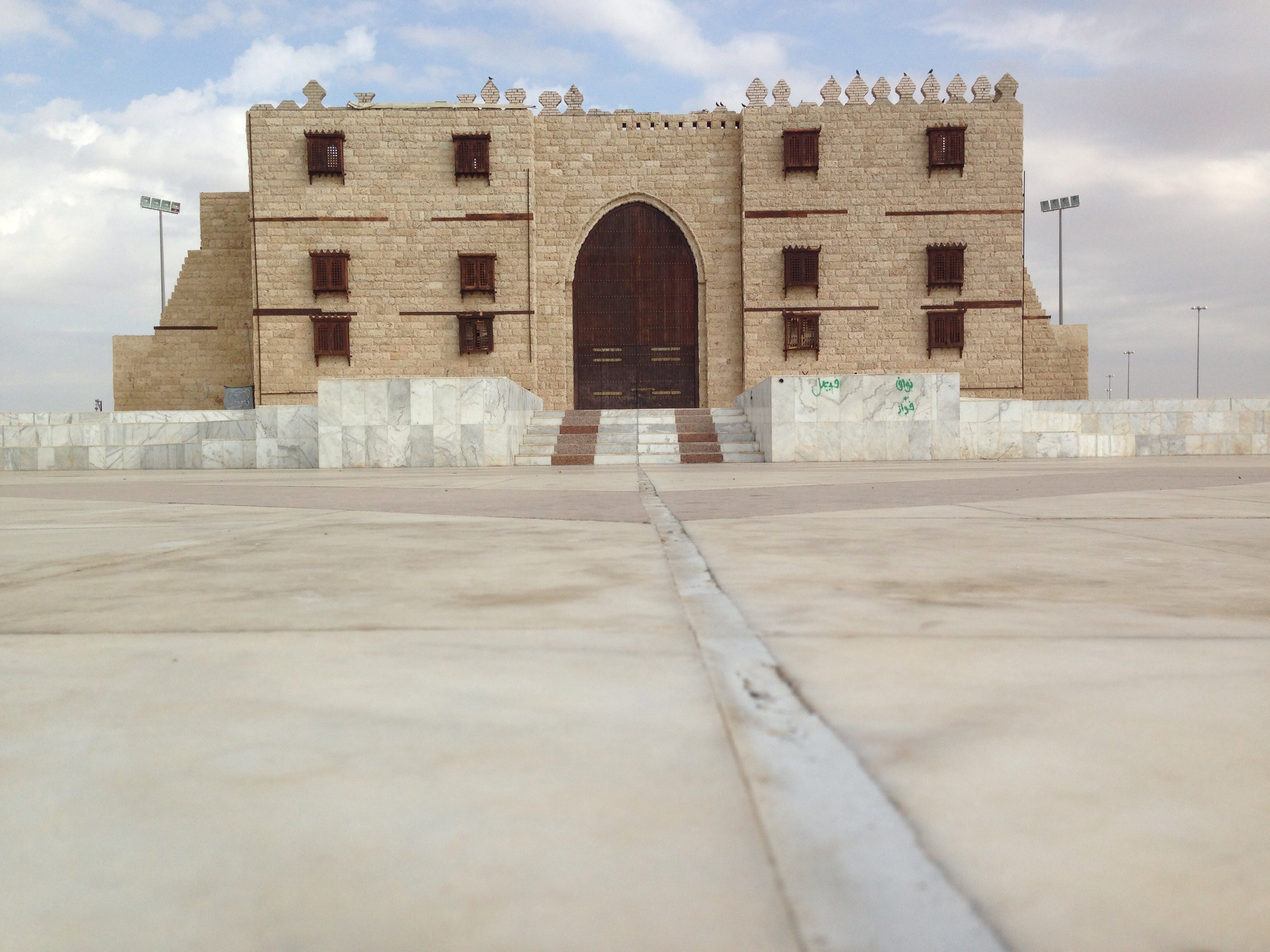 Old build of municipalityDahban. The like famous built to Dahban also there park front building .